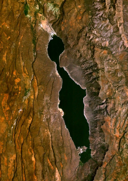 Lake Bogoria as seen from space.